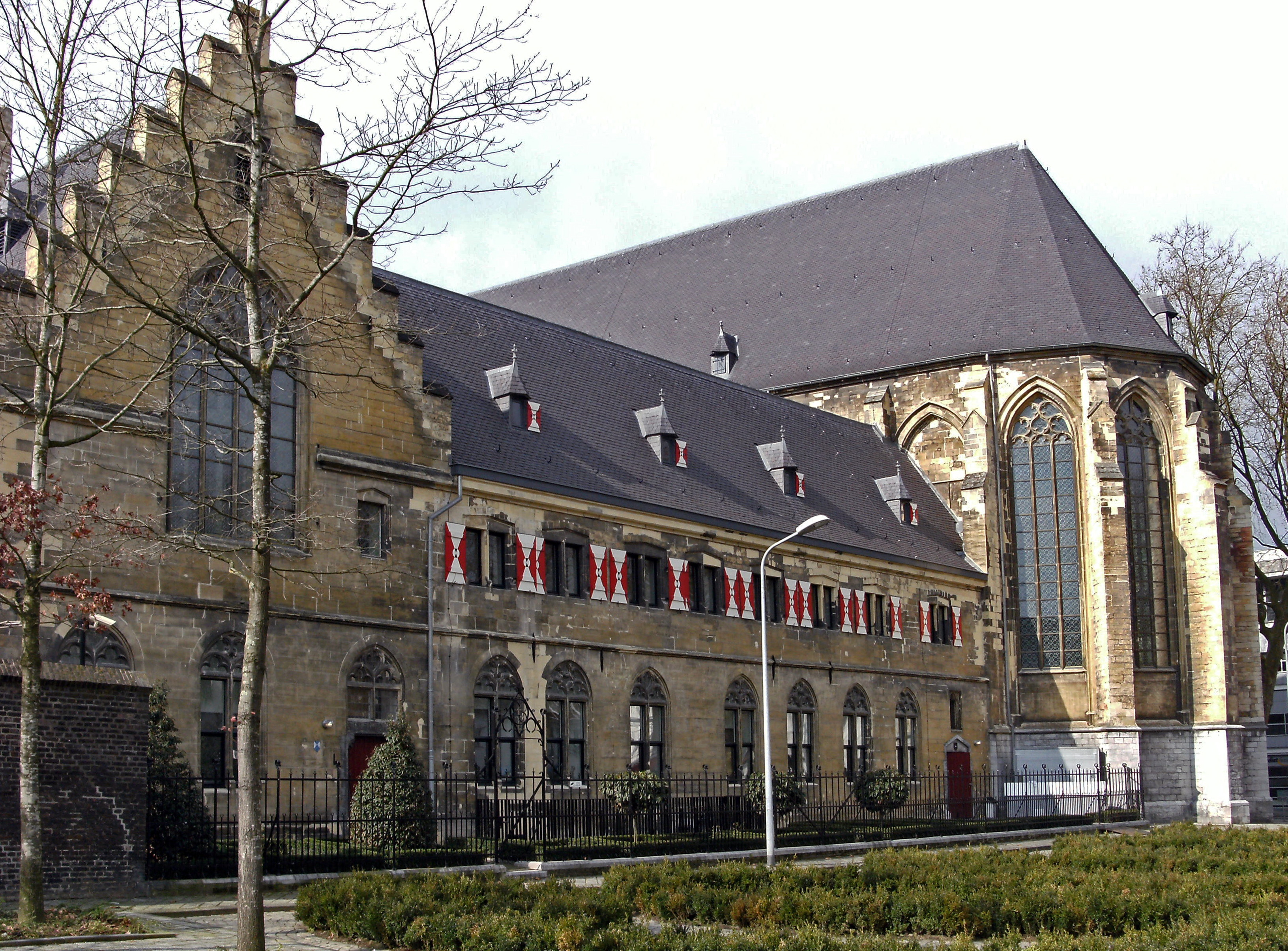 "Kruisherenkerk". 15th century Roman Catholic church in Maastricht in Gothic style.